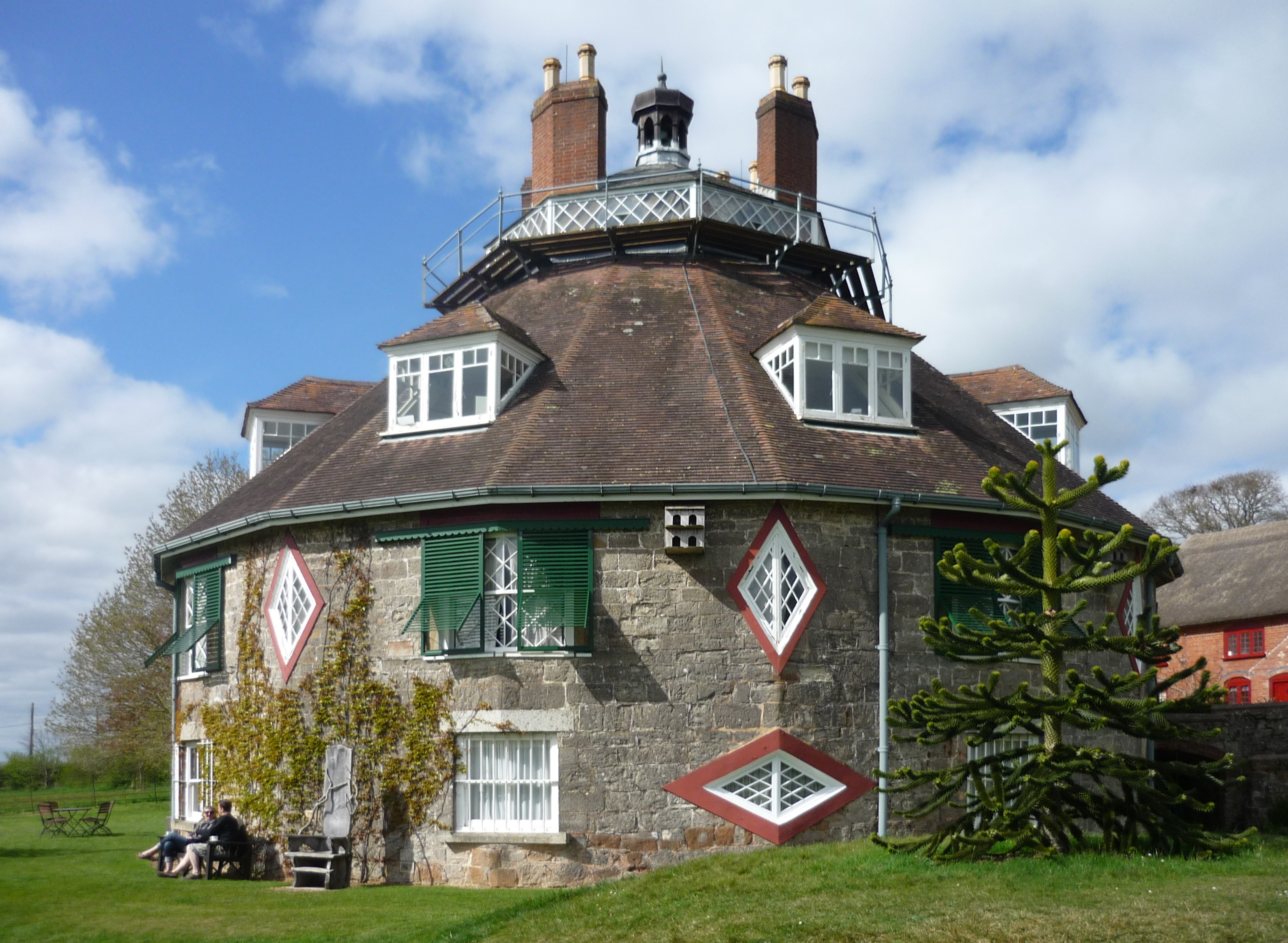 A La Ronde near Lympstone, Exmouth, seen from the south west